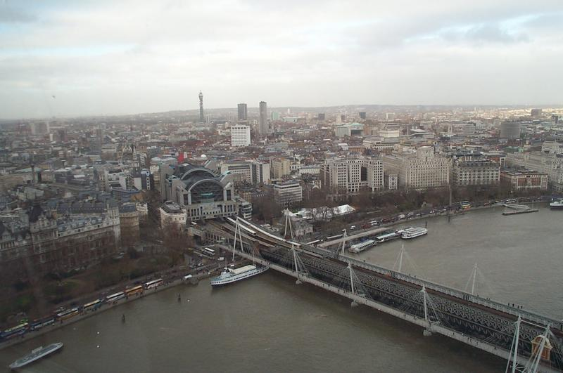 Charing Cross railway station from the London Eye, 2003-12-06. Copyright 2003 Kaihsu Tai